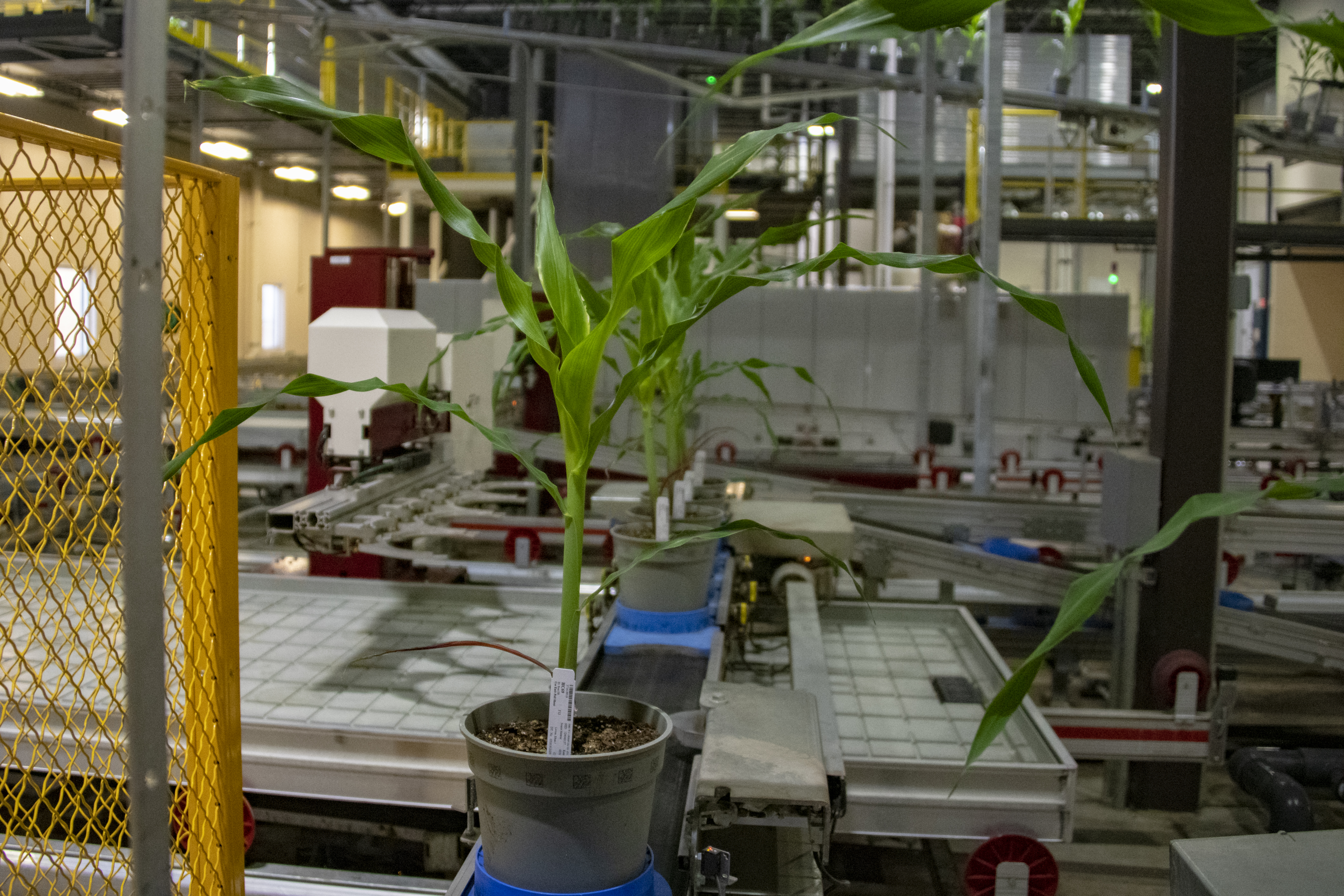 U.S. Secretary of State Michael R. Pompeo visits the Corteva Research Facility which is a highly automated greenhouse facility that processes seeds to the market and more in Des Moines, Iowa on March 4, 2019. [State Department photo by Ron Przysucha/ Public Domain]